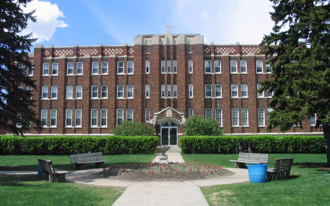 Luther College High School in Regina, Saskatchewan